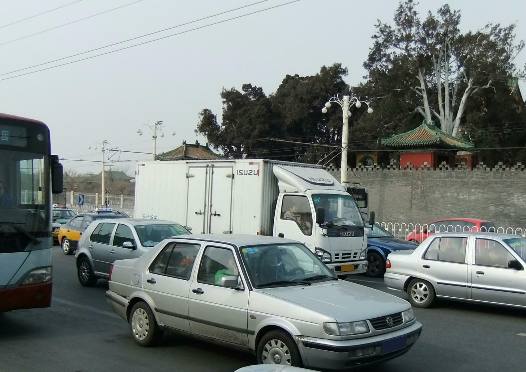 ISUZU N-Series / ELF,（There are a country and a region sold as N-series excluding a Japanese market, too.）, Truck